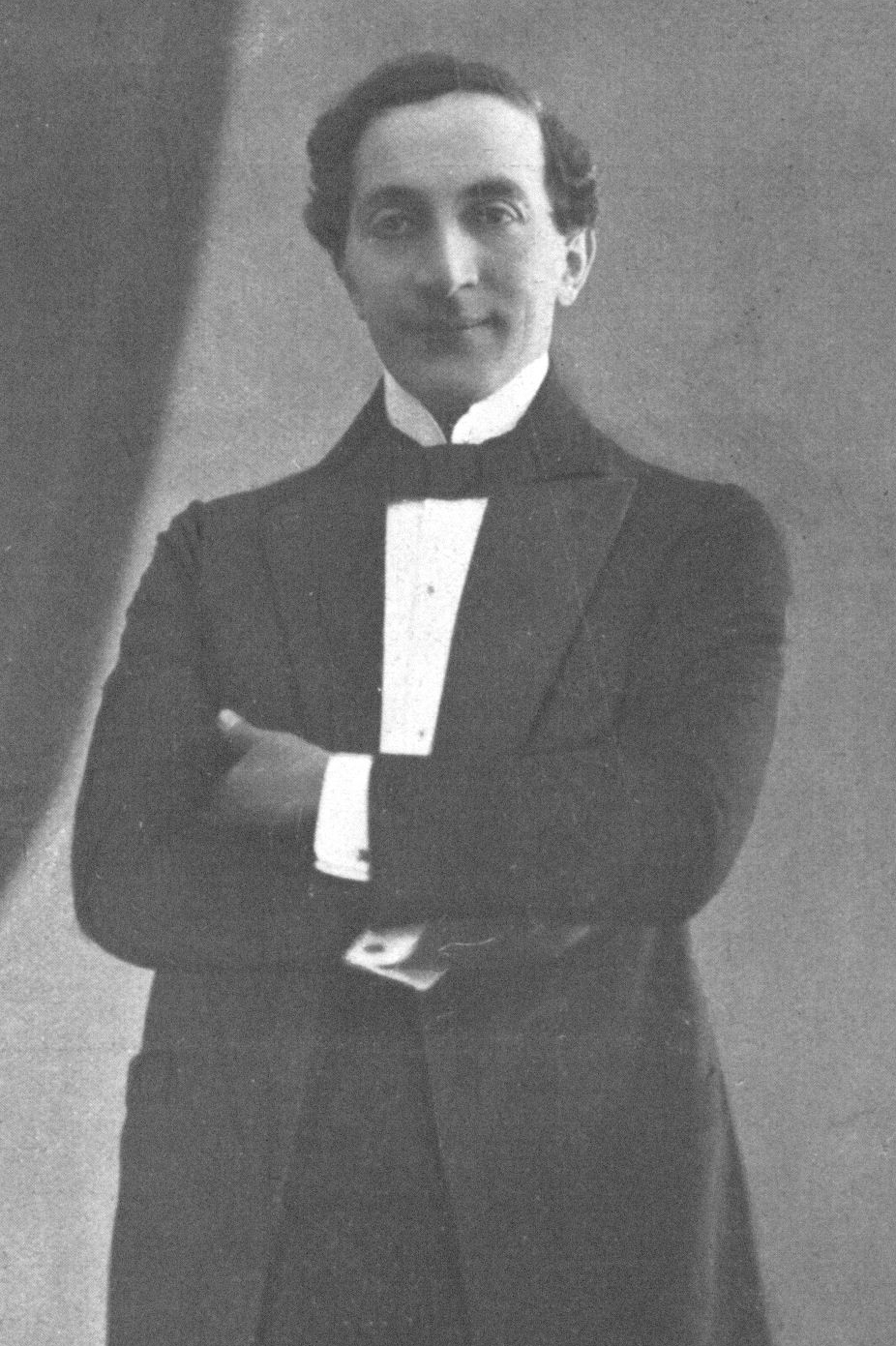 Rudolf Bandler (1978–1944); German-Czech opera singer and theatre director; photo from 1912